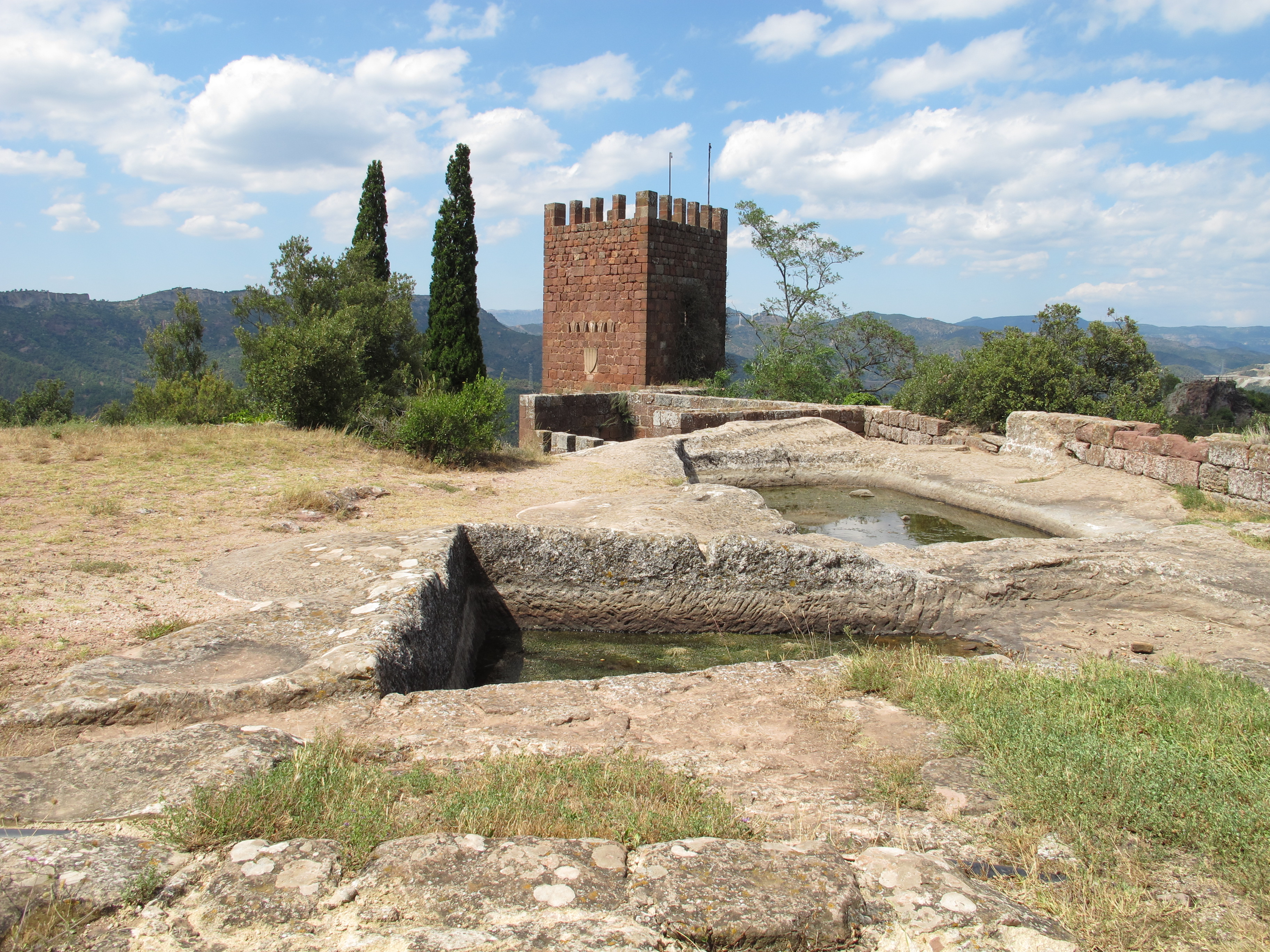 Castell-monestir d'Escornalbou (Catalonia, Spain): place with cisterns and tower